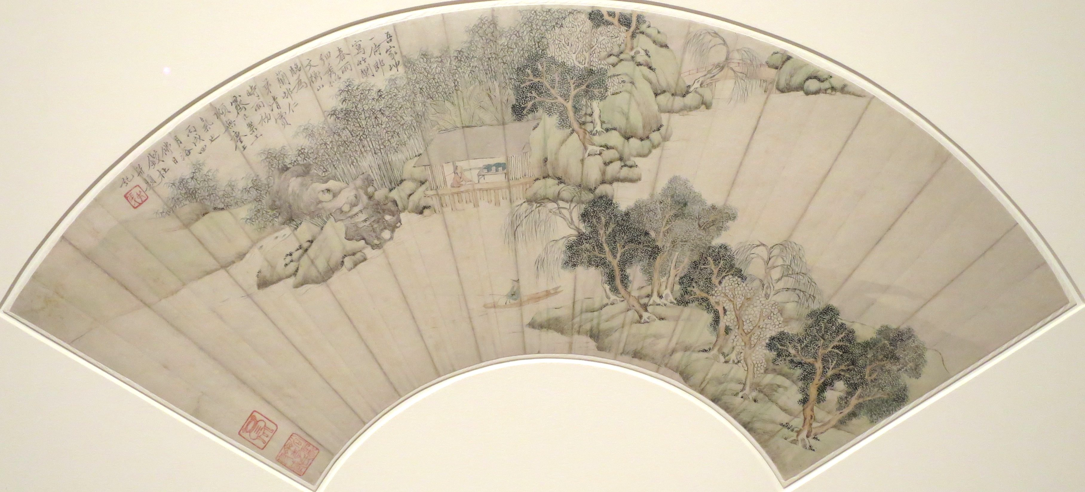 Scholar in a River Landscape, painting by Qian Du (Ch'ien Tu), Qing dynasty, 1826, Honolulu Museum of Art accession 2474.1